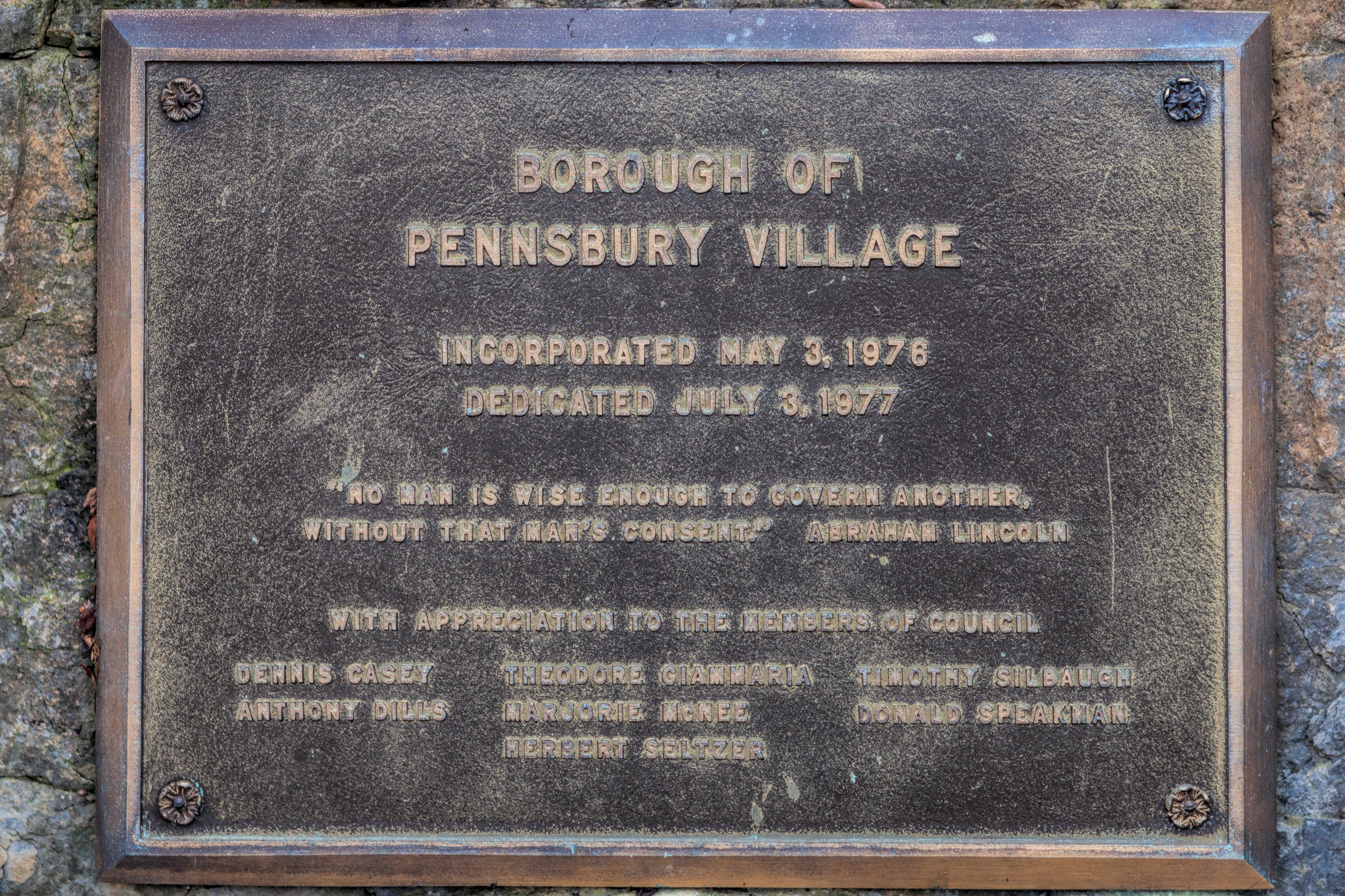 The dedication plaque for a part of the borough of Pennsbury Village, Pennsylvania. This tiny municipality, consisting only of condo-style houses, was born from a dispute over proposed sewage treatment fees. It seceded from the surrounding Robinson Township. The plaque reads, in part "No man is wise enough to govern another, without that man’s consent.” Abraham Lincoln.